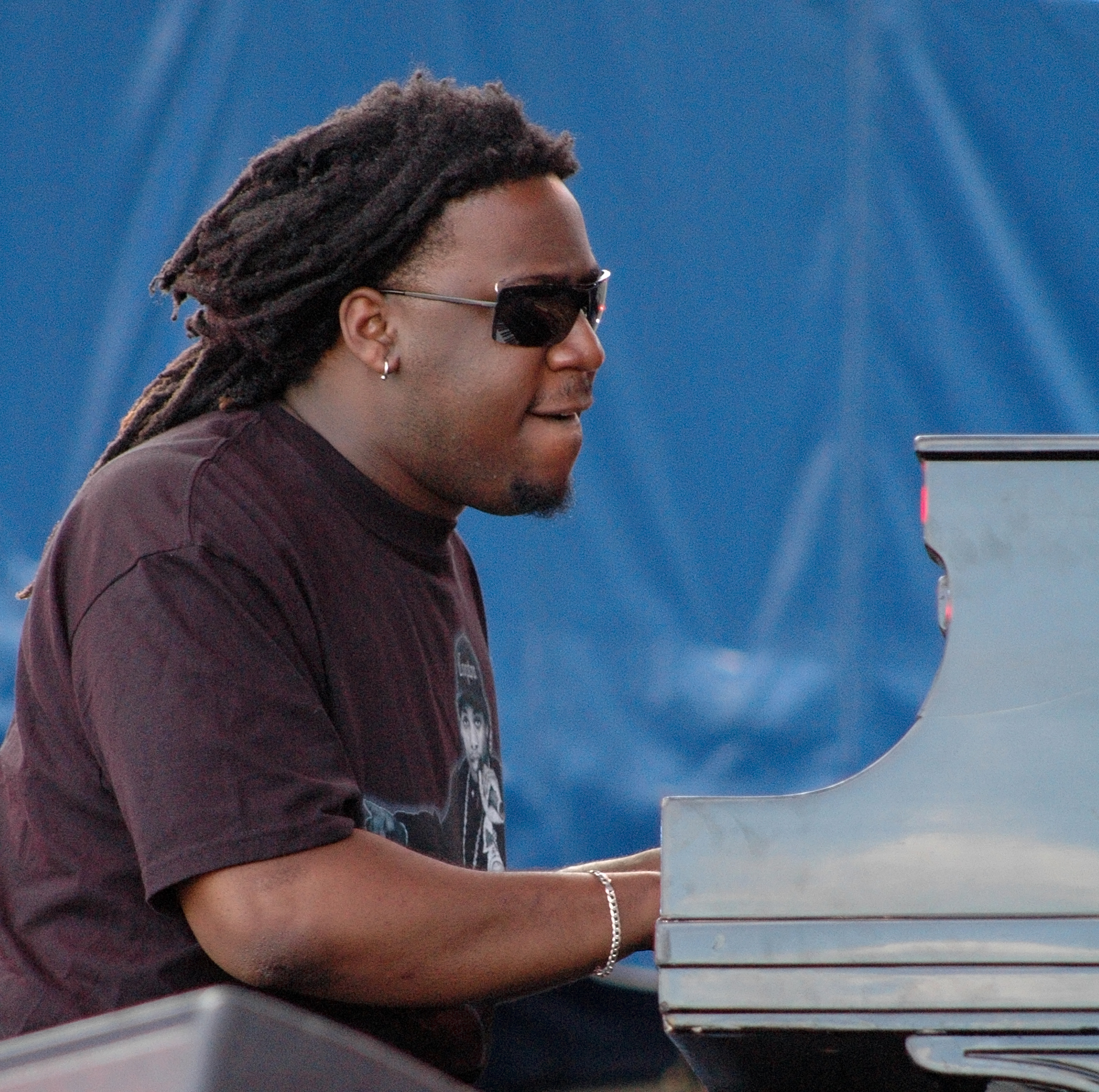 Robert Glasper at the Newport Jazz Festival, August, 2006